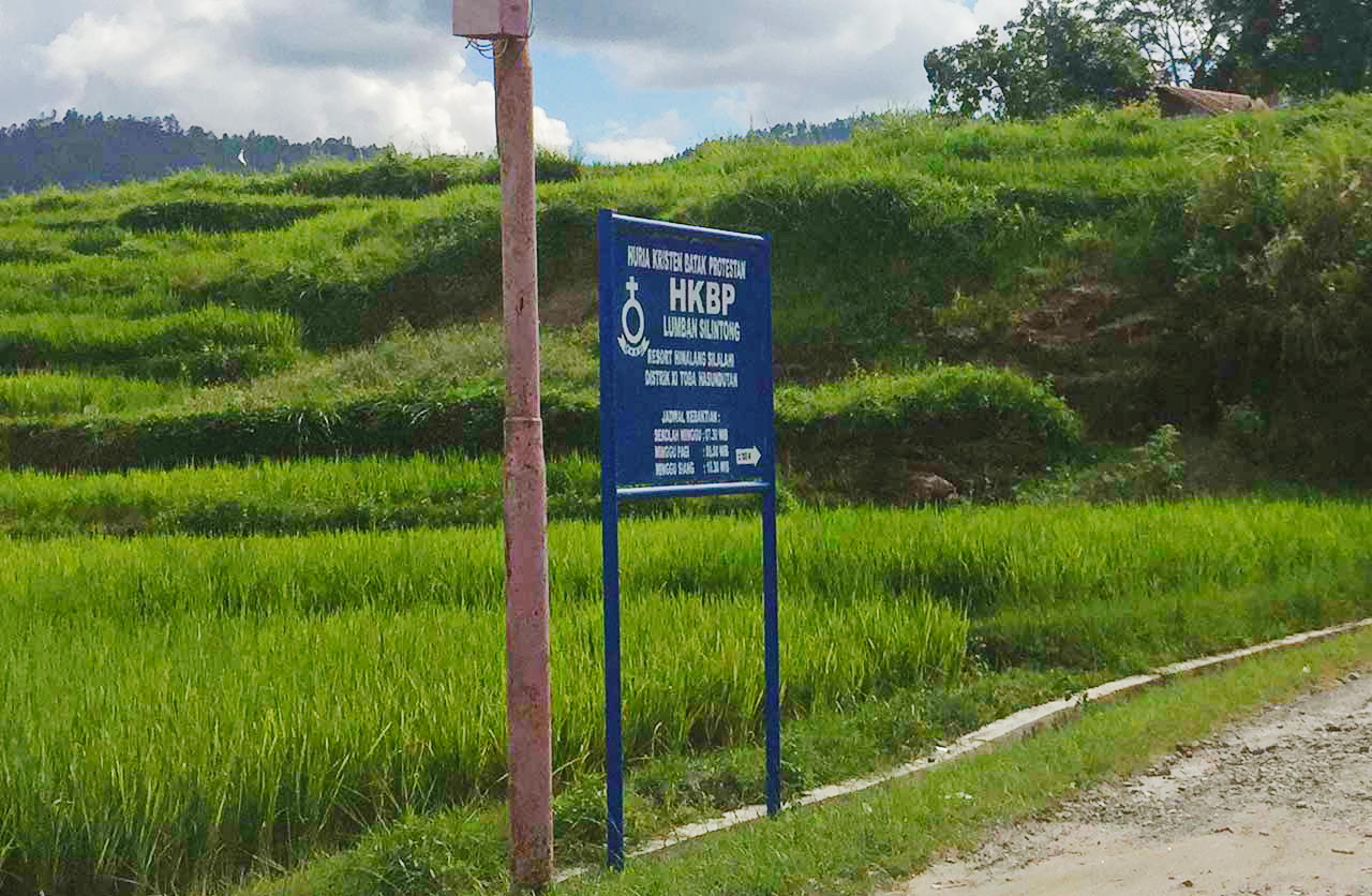 HKBP Lumban Silintong, church in Lumban Silintong, Balige, Toba Samosir